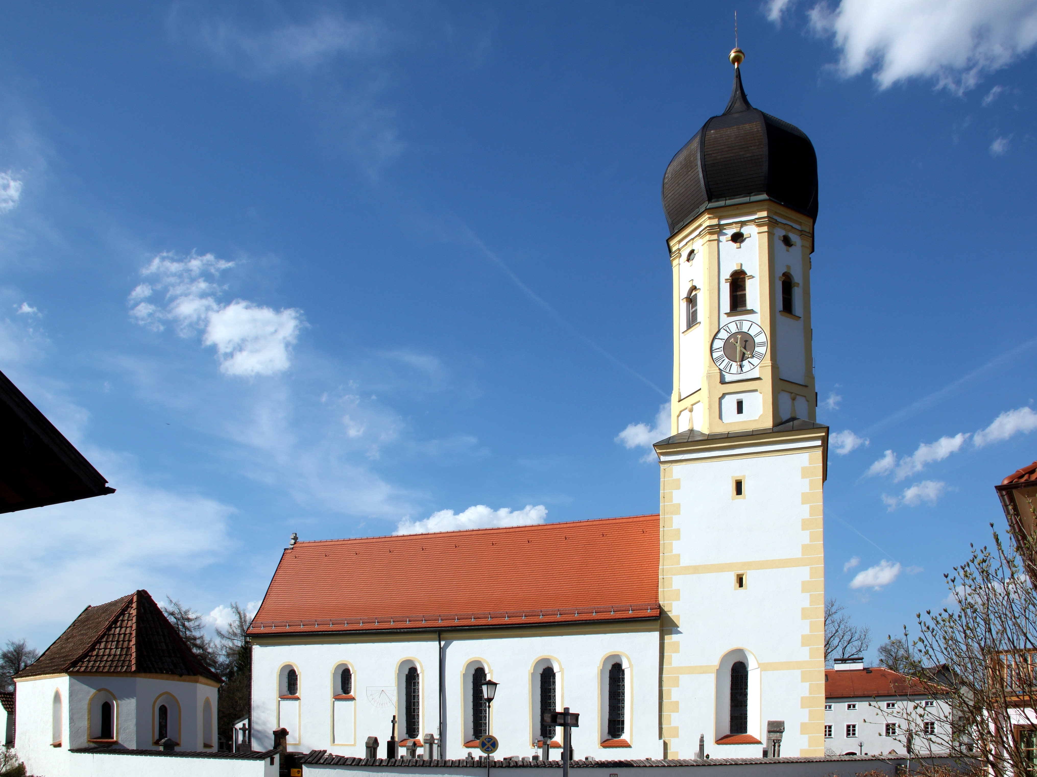 Aying: St. Andreas parochial church (from south)